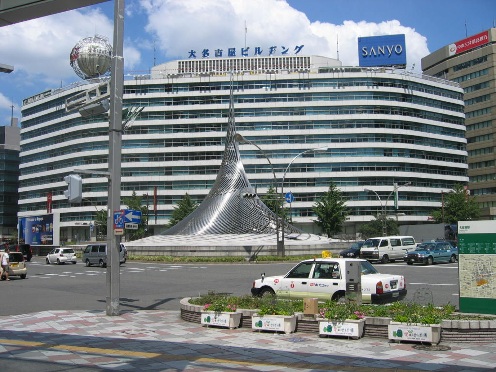 Photo taken by User:Jiang on August 16, 2005.